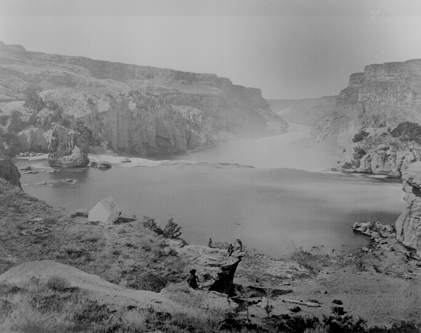 View of Shoshone Canyon and Falls — in the Idaho Territory, in 1868. Showing members of the King Survey, Geological Exploration of the 40th Parallel expedition, atop the rocks. By Timothy O'Sullivan, 1868. 77-KS-4412.